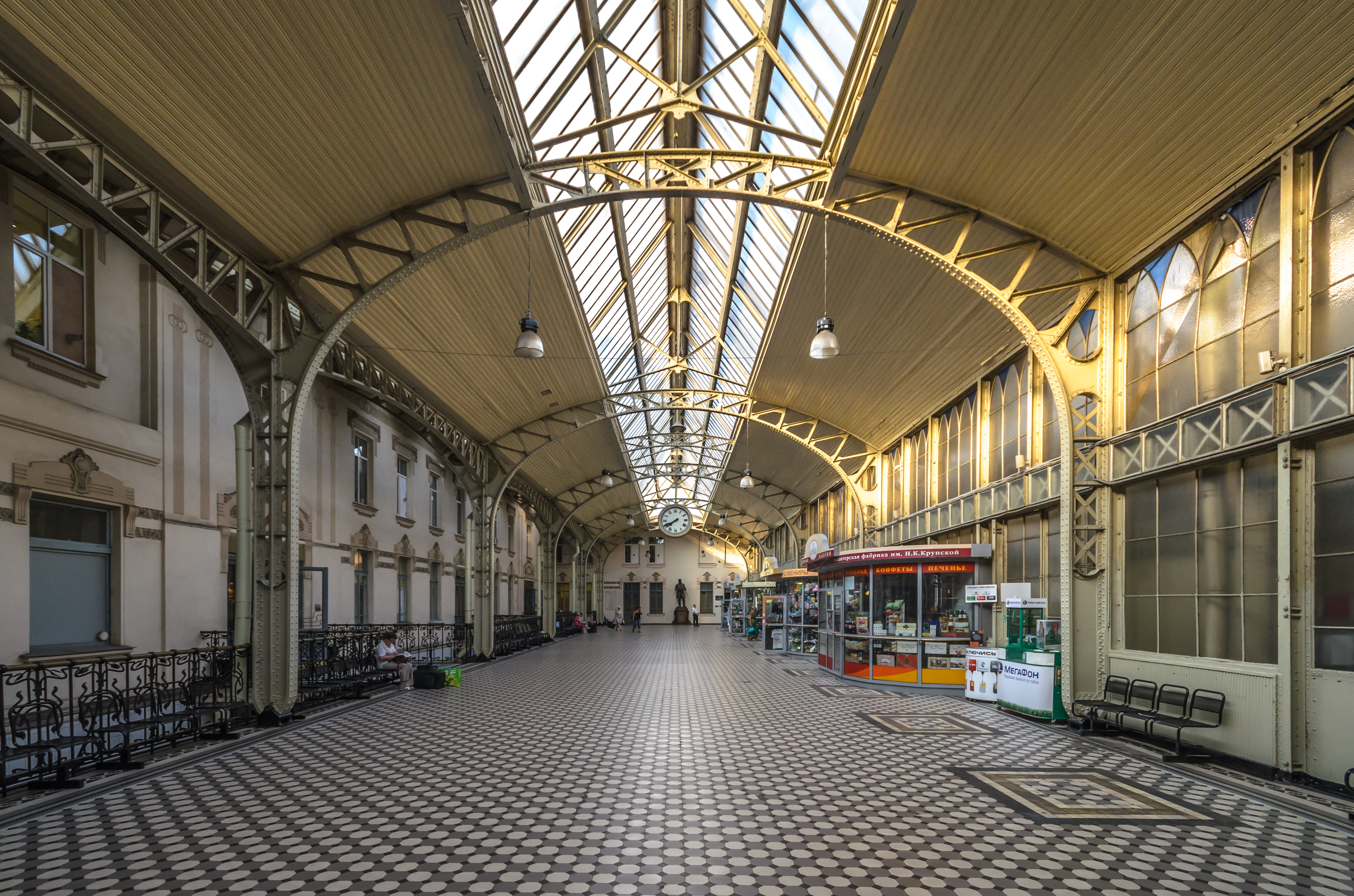 Vitebsky Rail Terminal in Saint Petersburg, Vestibule